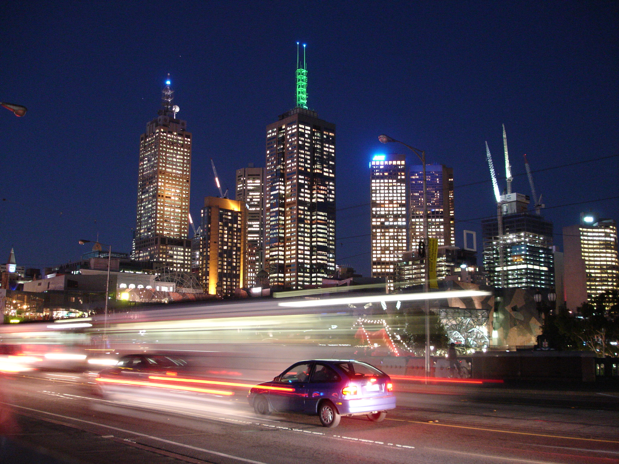 Melbourne City (Federation Square) in the background, moving cars and tram in foreground